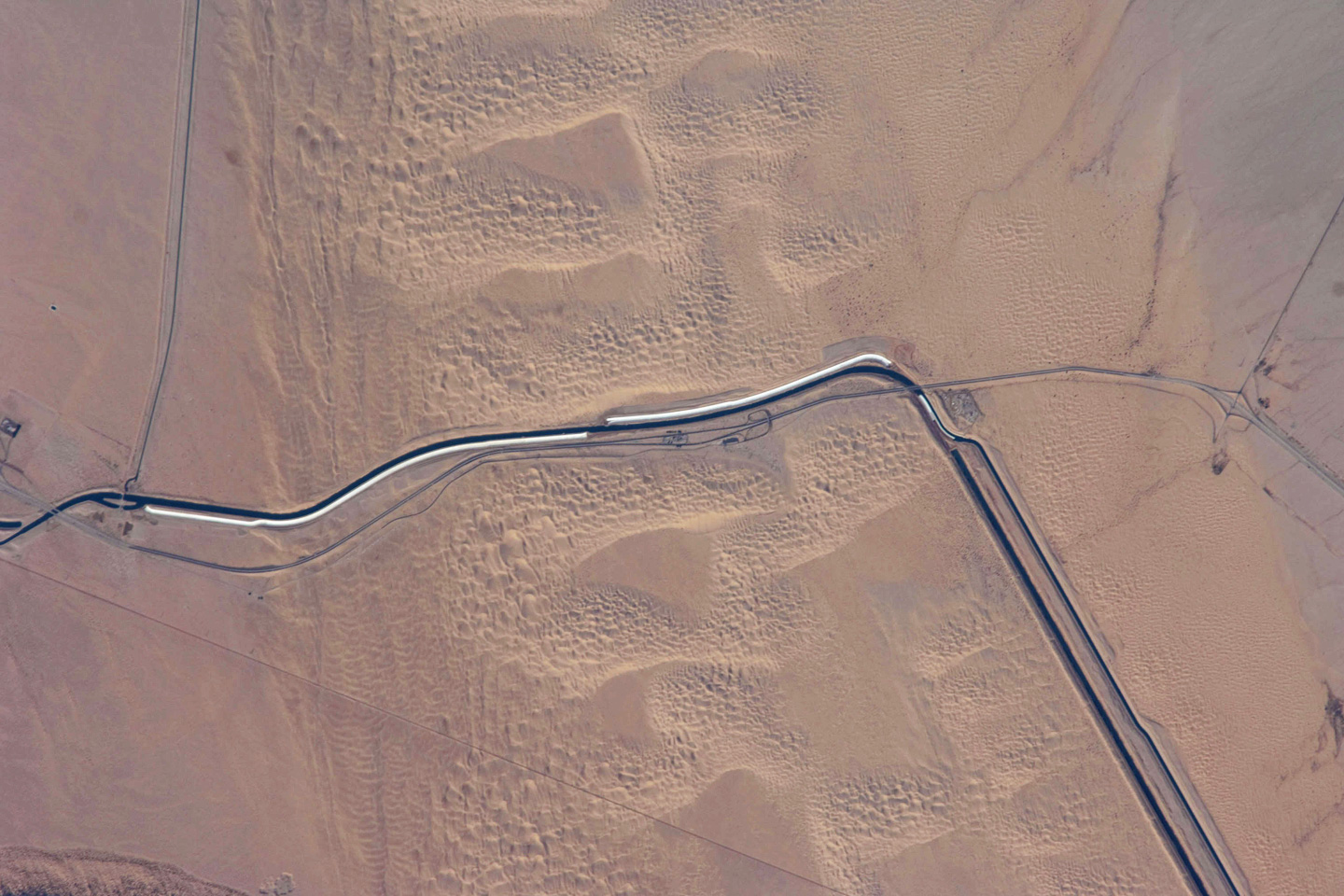 This photo, taken from the International Space Station, captures about 15 kilometers (9.3 miles) of the All-American Canal in Imperial County, California, just west of Yuma, Arizona. The image depicts the southernmost section of the Algodones Dunes.